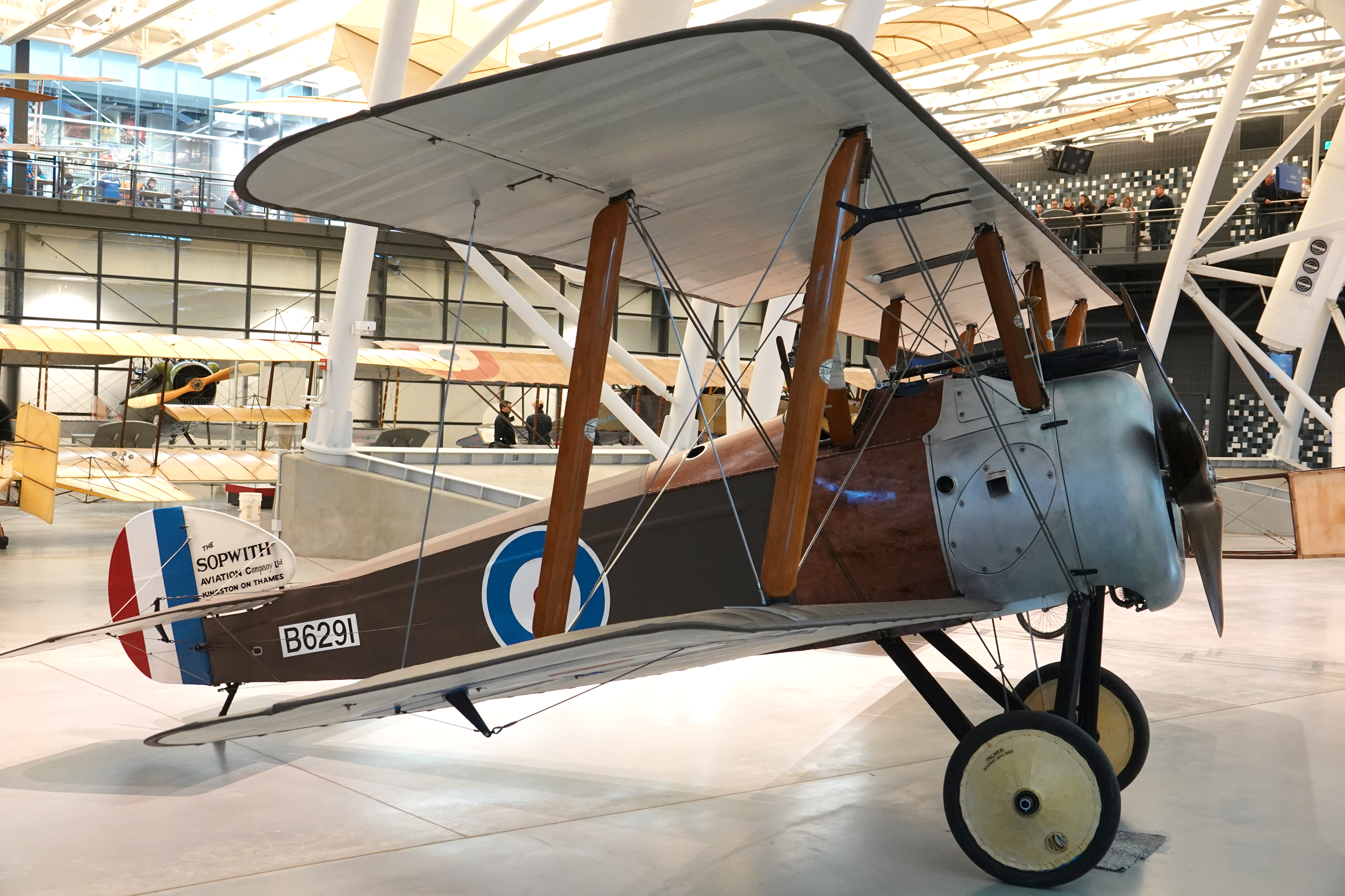 The Sopwith Camel is among the most significant and famous of all WWI aircraft. Camels downed 1,294 enemy aircraft, more than any other Allied fighter in WWI. The name Camel, while not an official military designation, refers to the distinctive “hump” created by the cowling over the two Vickers machine guns ahead of the cockpit. Unlike Sopwith’s earlier Pup and Triplane, which were docile to fly and well-liked by pilots, the Camel was unstable, requiring constant control input. Pilots initially found the Camel challenging and dangerous. The controls were sensitive, and it could turn tightly because much of the weight, including the engine, fuel, machine guns, and pilot, was ash the front of the airplane. The gyroscopic effect of the powerful rotary engine also contributed to its maneuverability. Almost as many pilots were killed in accidents as died in combat flying the Camel. But once its tricky characteristics were mastered, the Camel was a superior fighting airplane. The Camel entered operational service in July 1917 and remained a front-line fighter until the end of the war, with approximately 5,490 built. This example, B6291, served with No. 10 squadron of the Royal Naval Air Service. -- Gifted to the Smithsonian by the Arango Family with gratitude and appreciation. Specifications: Wingspan: 8.5 m (28 ft) Length: 5.7 m (18 ft 9 in) Height: 2.6 m (8 ft 6 in) Weight, empty: 422 kg (930 lb) Weight, gross: 659 kg (1,453 lb) Engines: Clerget 9B rotary, 130 hp Manufacturer: Sopwith Aviation Co., 1917